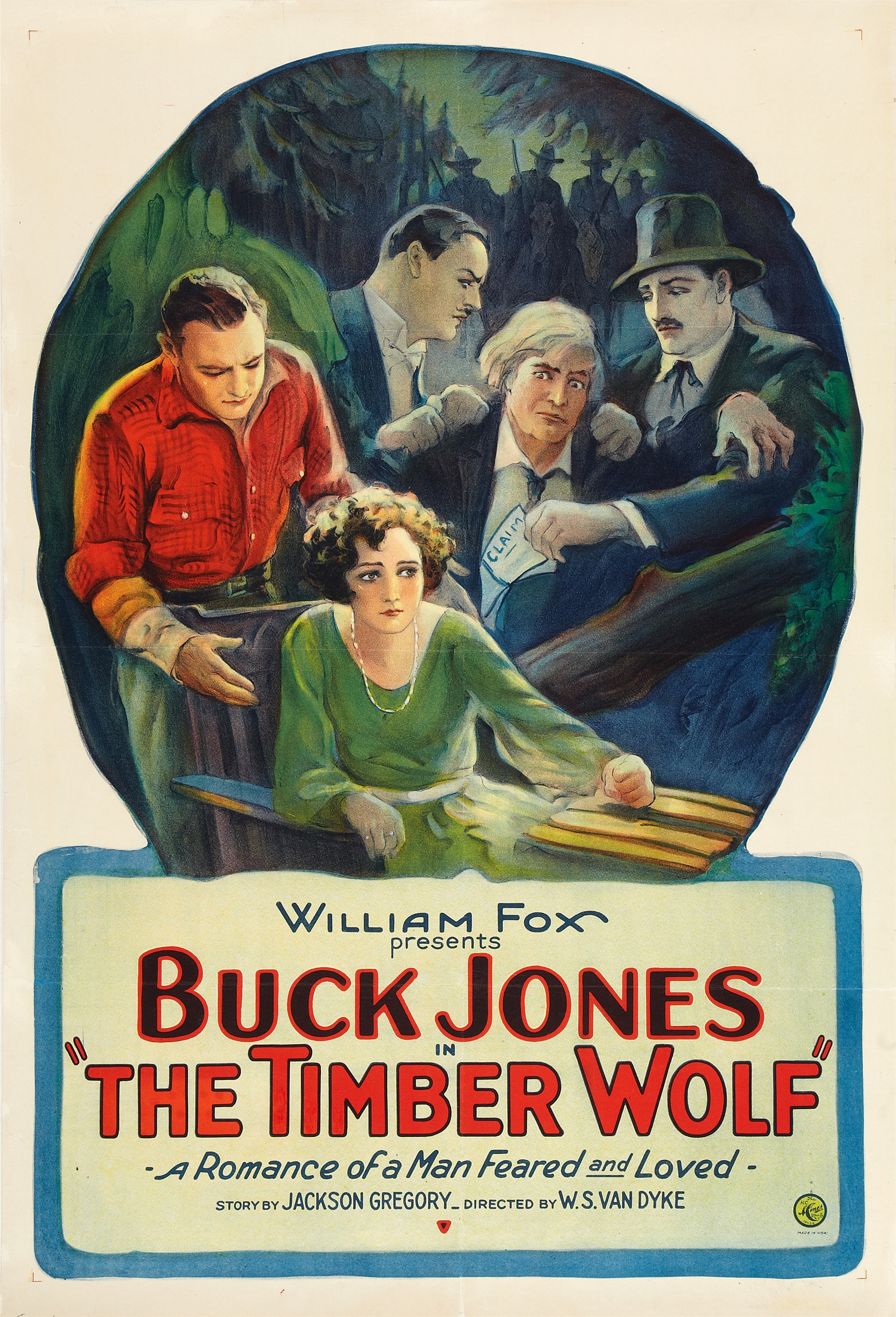 This is a poster for the 1925 American silent Western film The Timber Wolf.